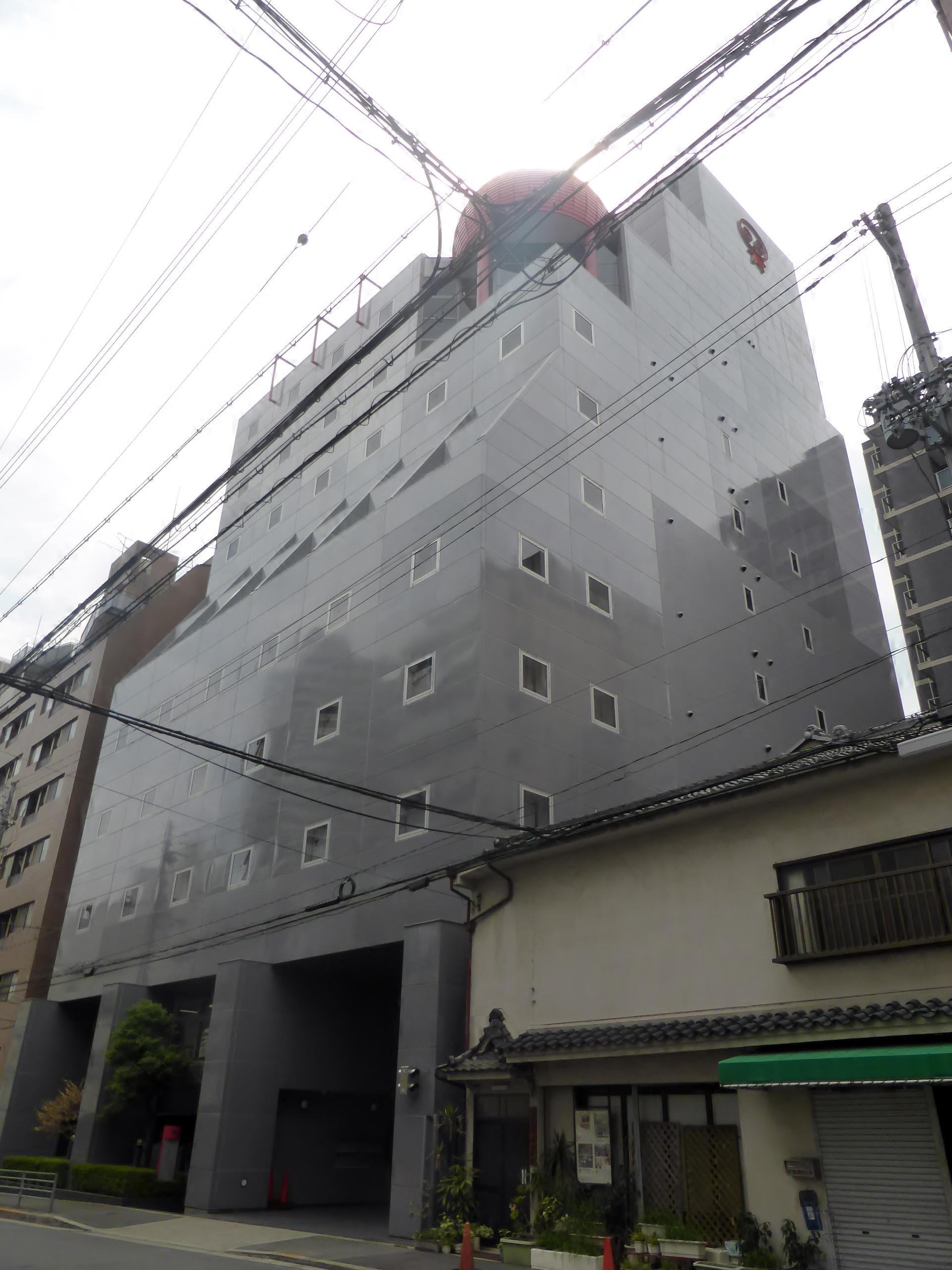 I,the copyright holder,abandon all rights concerning this image.